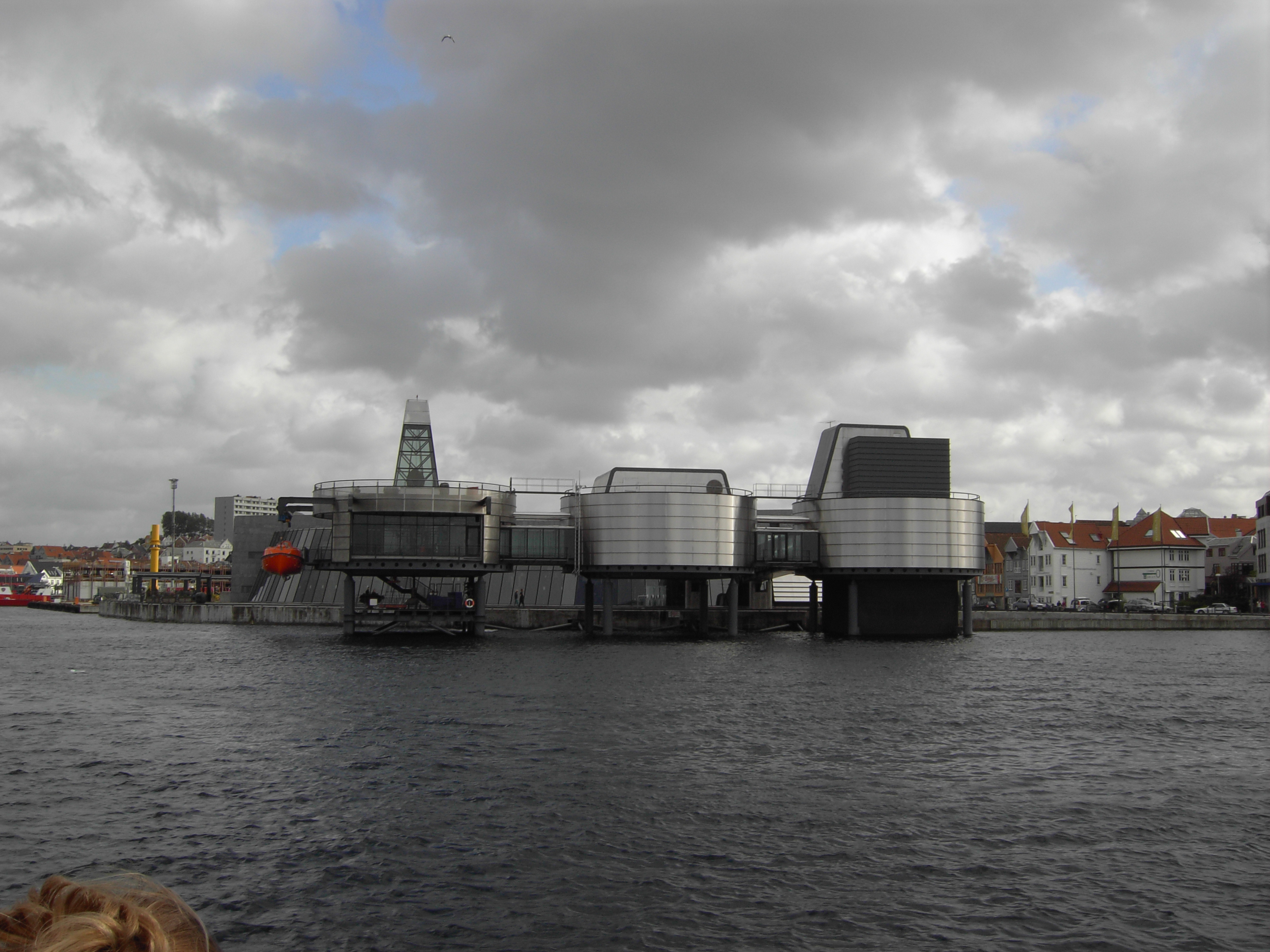 Stavanger, Norsk Oljemuseum from the seaside